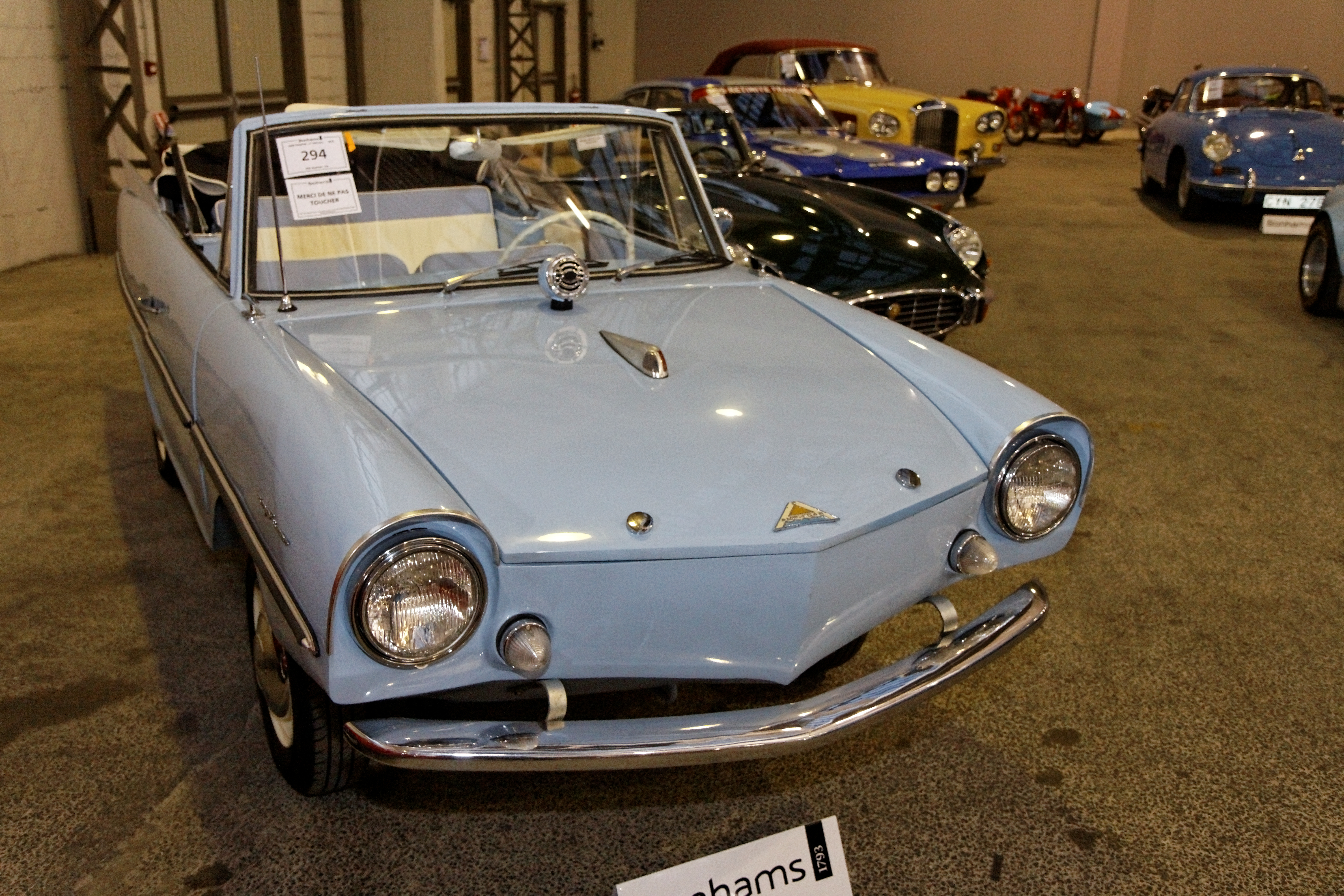 Amphicar 770